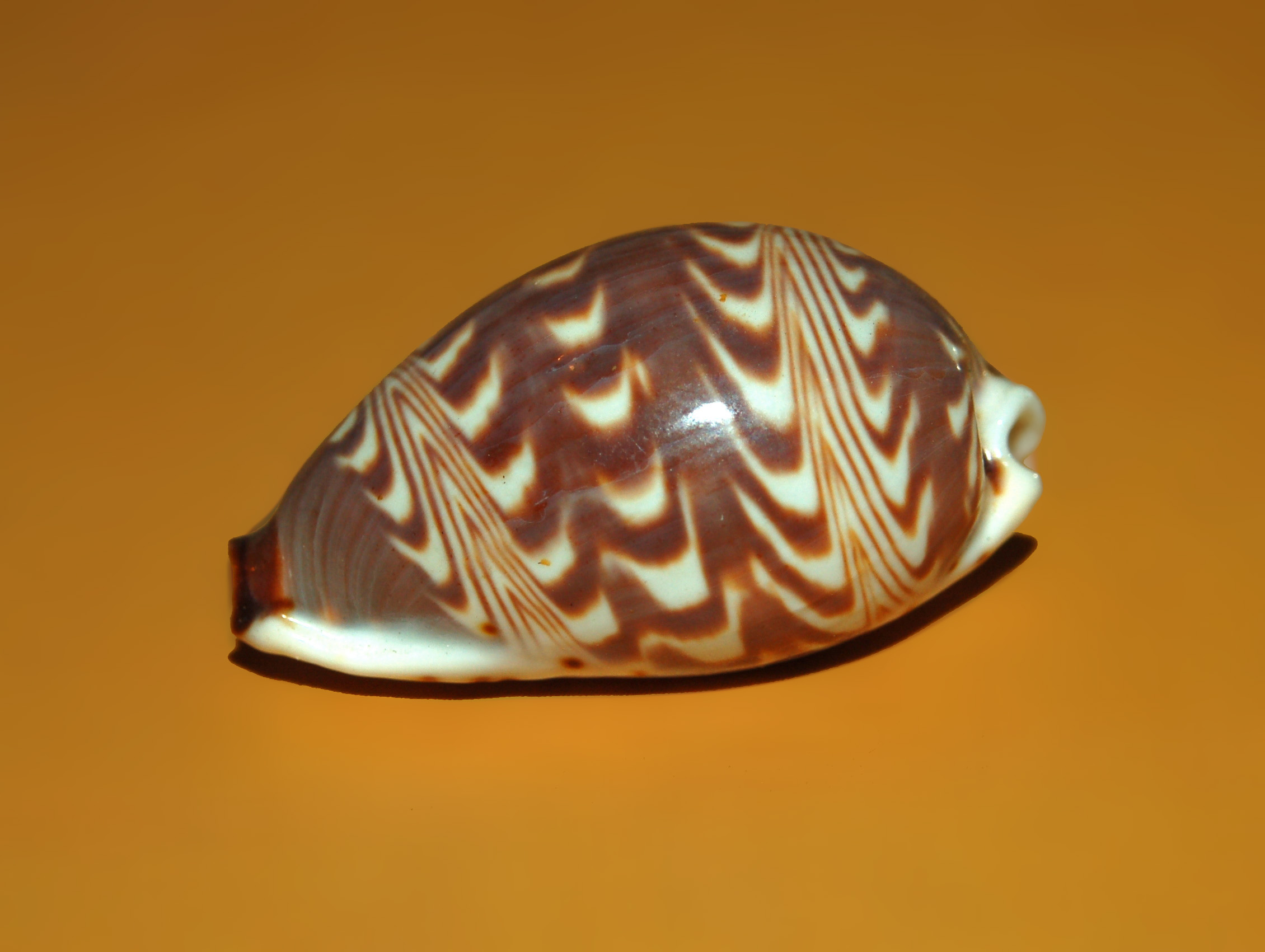 Palmadusta diluculum